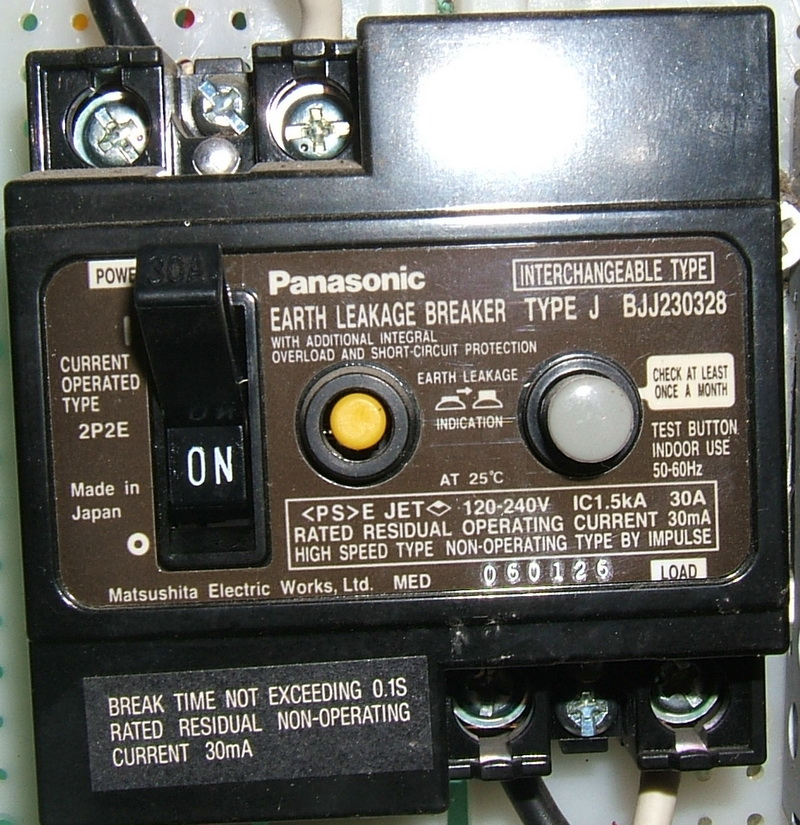 ELCB Panasonic 2P2E